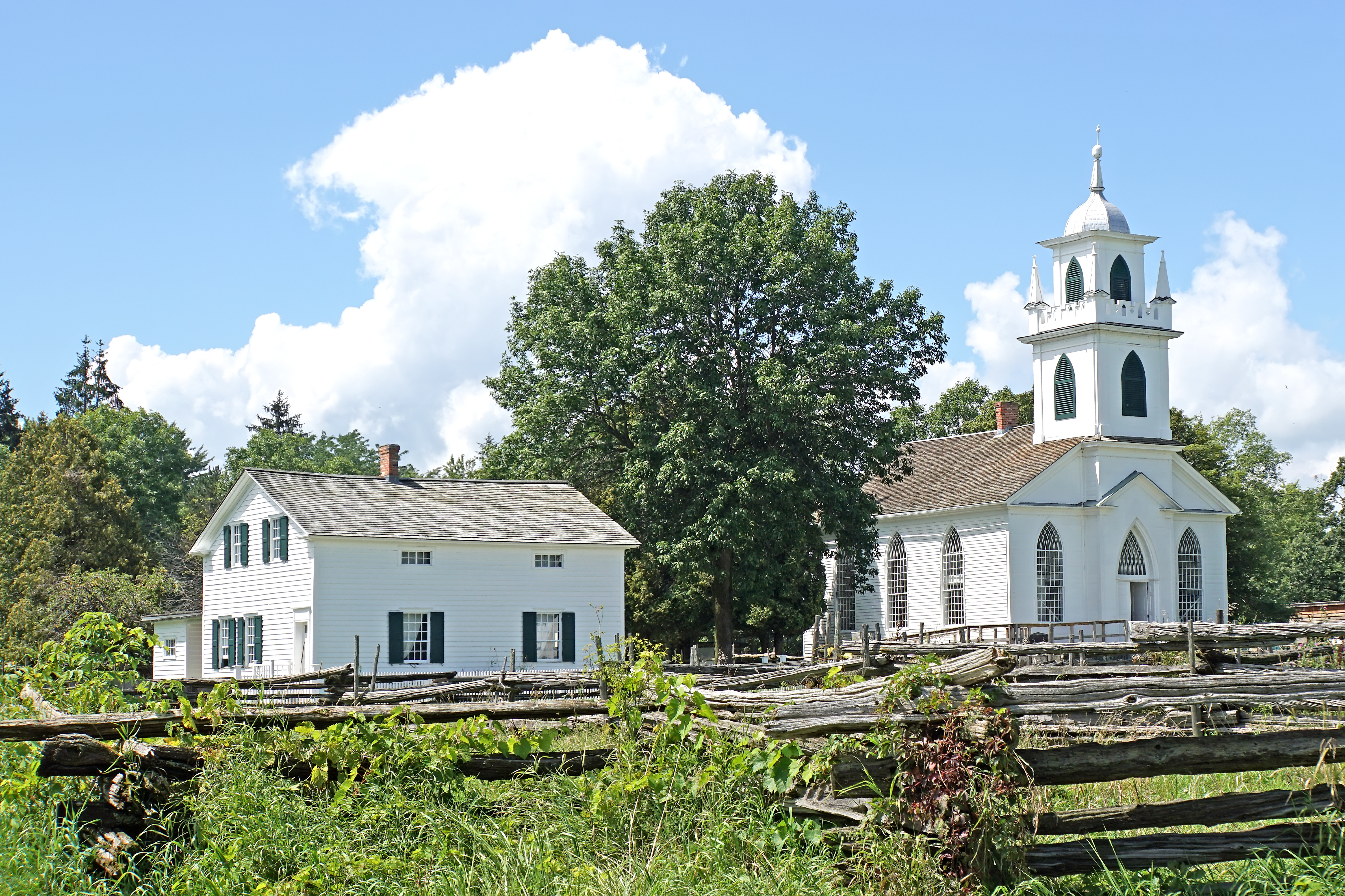 PLEASE, NO invitations or self promotions, THEY WILL BE DELETED. My photos are FREE to use, just give me credit and it would be nice if you let me know, thanks. Looking at a couple of the building in the village as we pass by on the horse-drawn boat (tow scow). Christ Church was built in 1837. The building reflects as sense of order, symmetry and balance, hallmarks of 18th century classicism, the pointed Gothic window arches and decorative trim on the tower add a Romantic touch to the building. The land for the church and the financial support for its construction were given to the Church of England congregation of Moulinette by Adam Dixson, a wealthy, local miller. The first service conducted in the church, was for his wife's funeral (before the church was finished), and within a year, his own funeral service had also taken place.